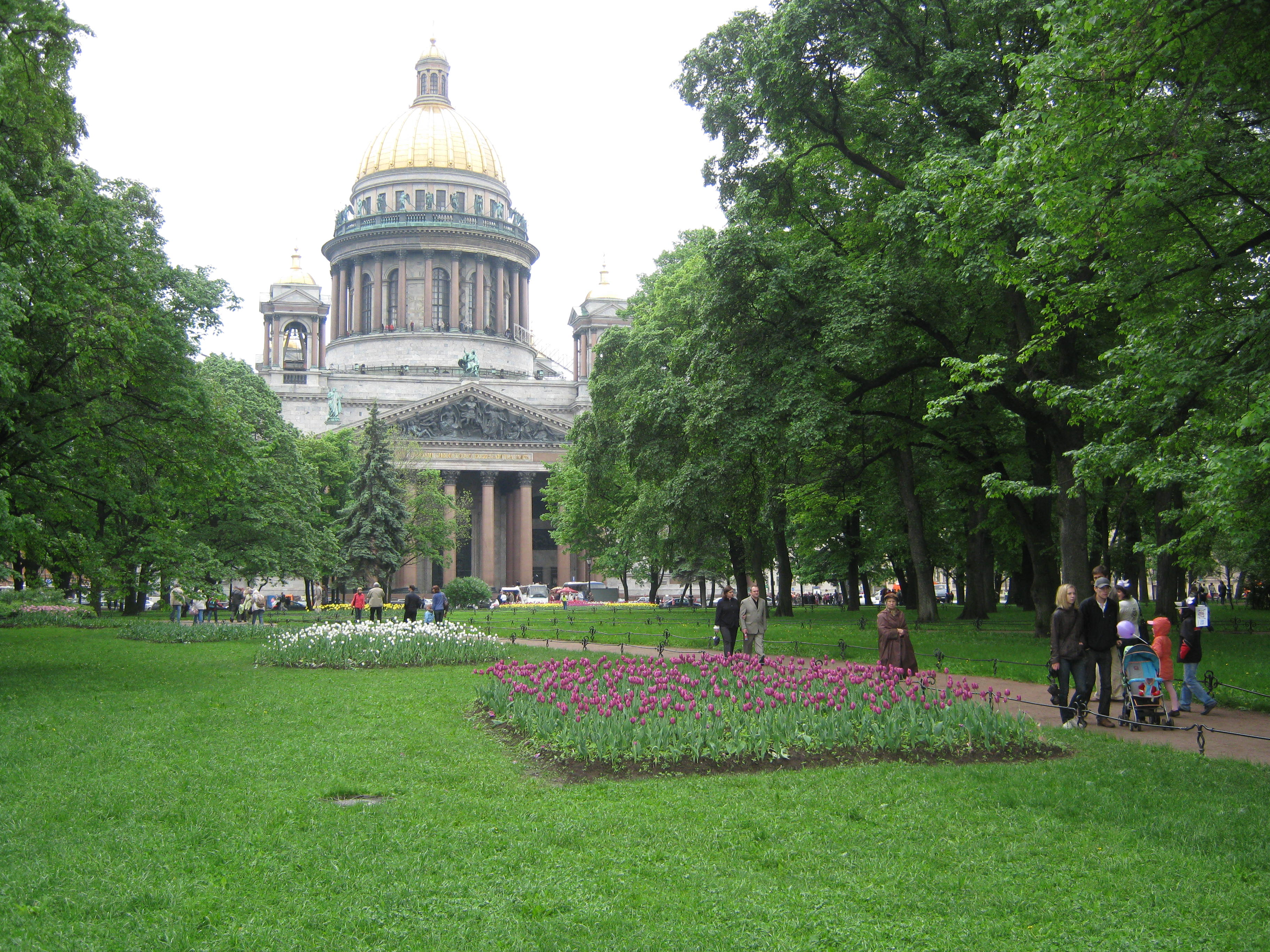 Saint Petersburg (Russia), Russian Admiralty, Day of city of Saint Petersburg